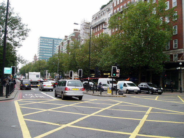 Box junction, Marylebone Road (A501) Looking west at junction with Baker Street.